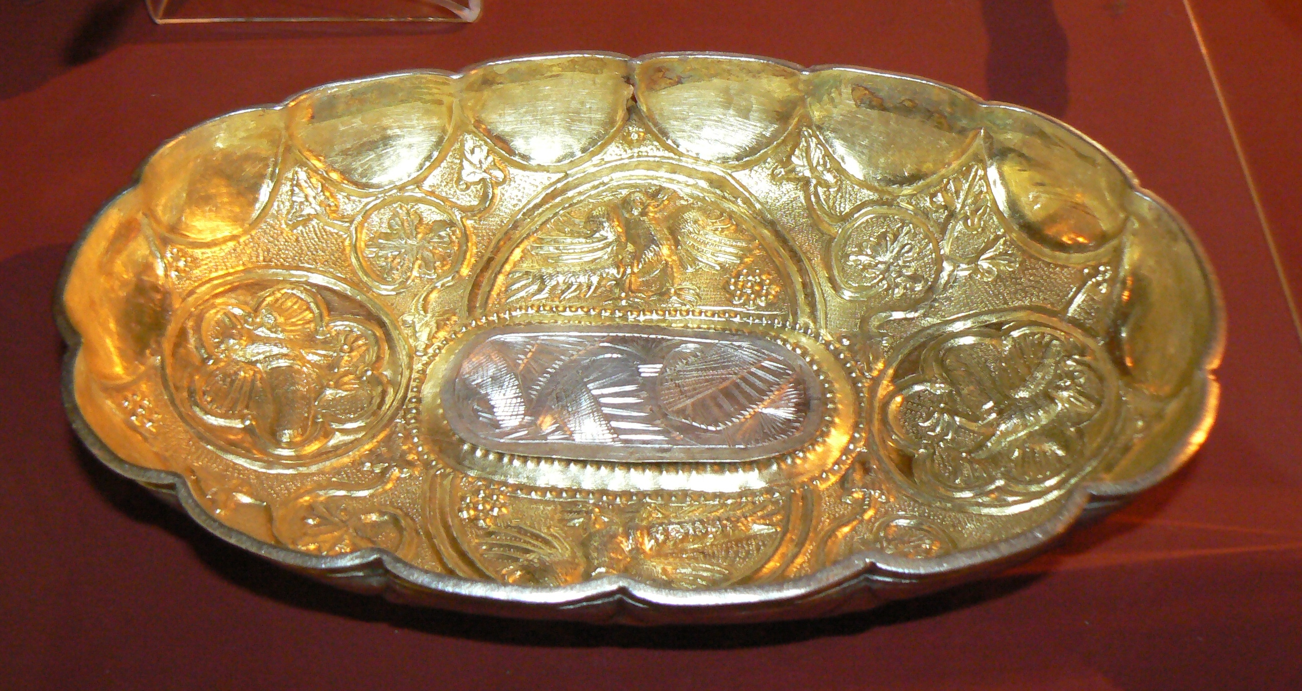 A vessel from the Nikopol Treasure, 14 century AD. Exhibit of the National History Museum of Bulgaria